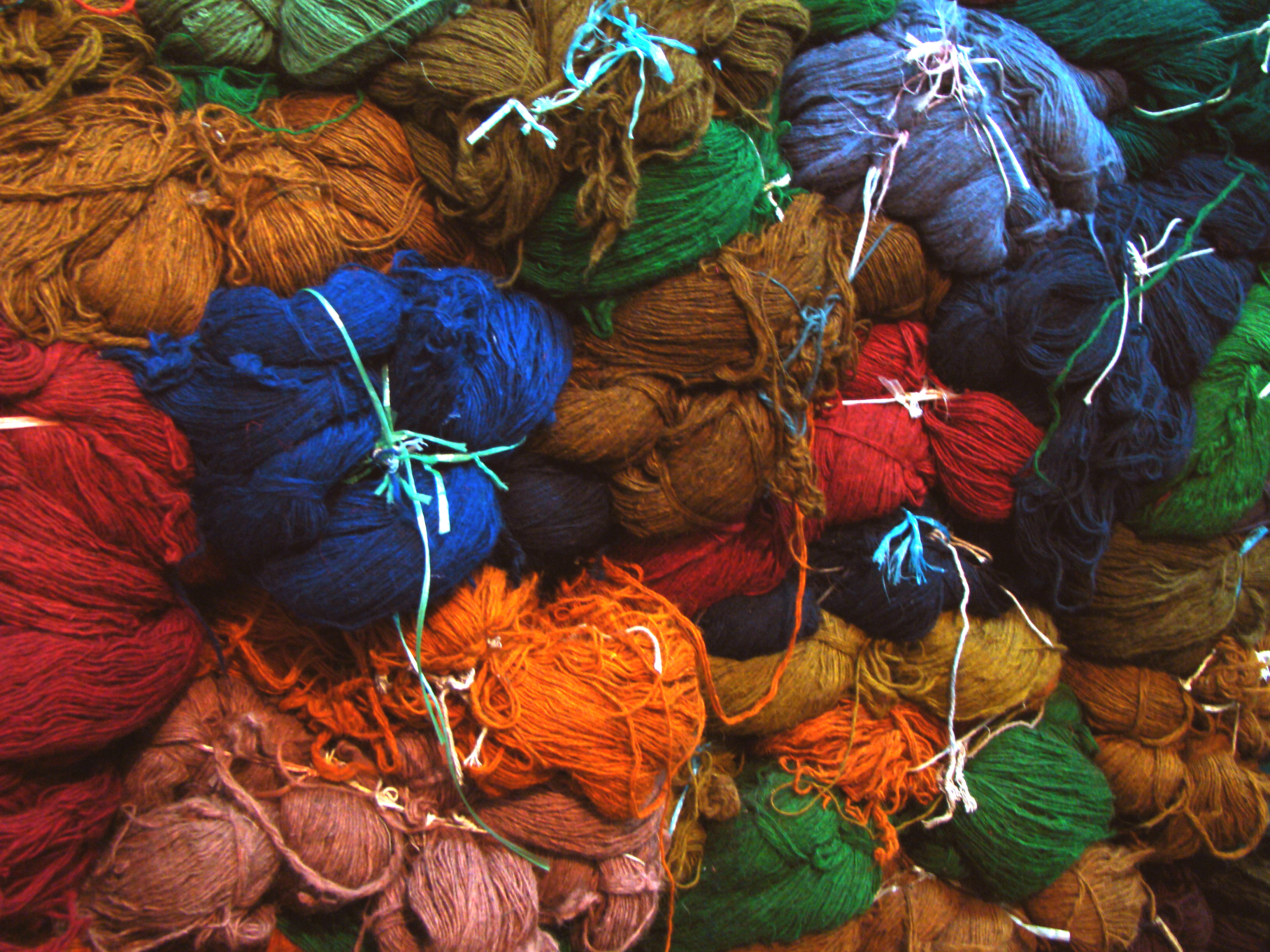 Tabriz rug and carpet bazar.